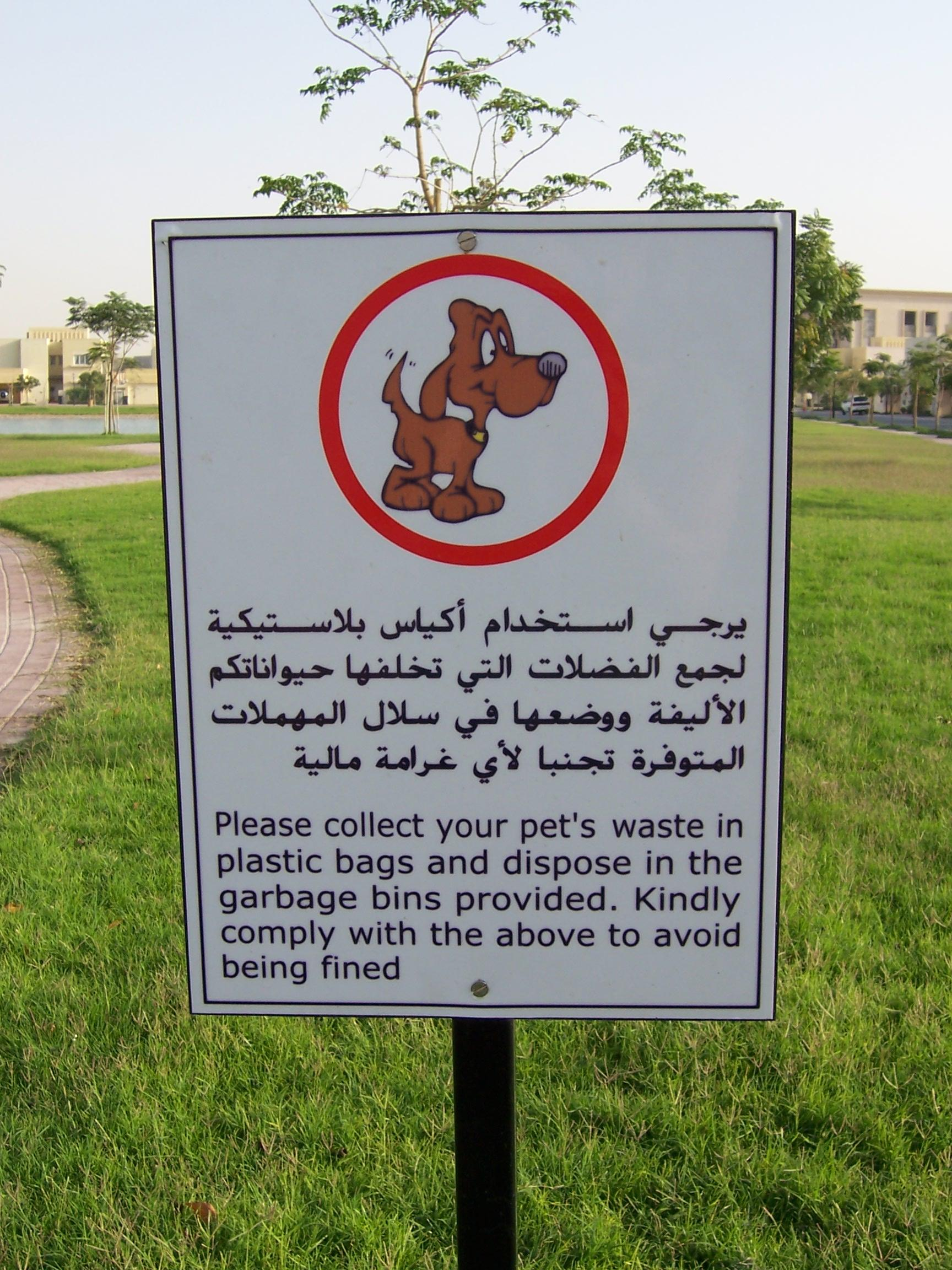 Doggy Doo, You pick up or YOU PAY!!